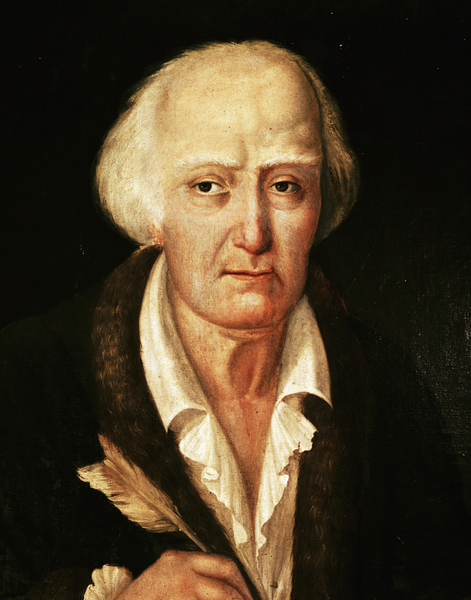 Giacomo Tritto-opera composer